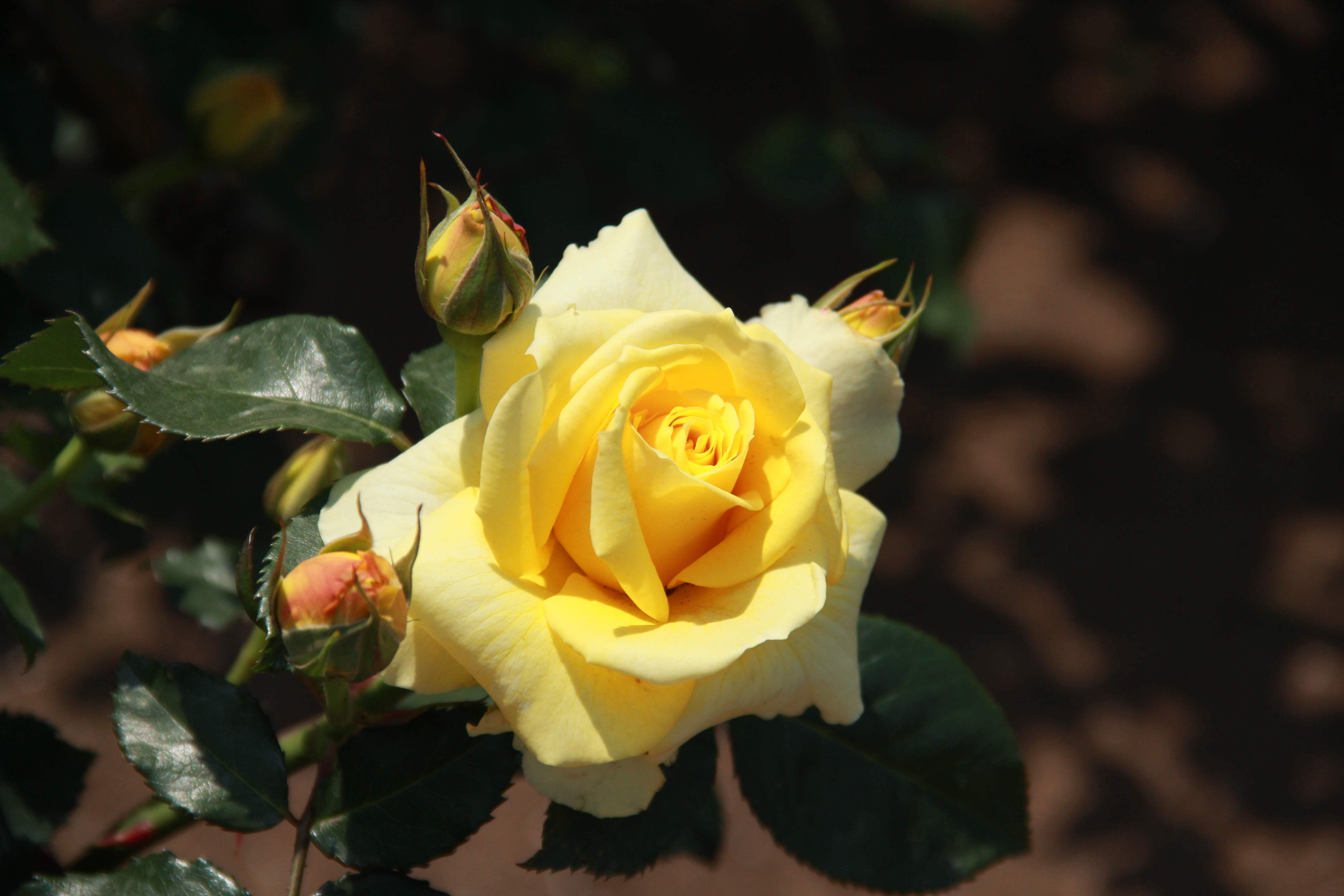 Rosa 'Gold Bunny, Cl.'